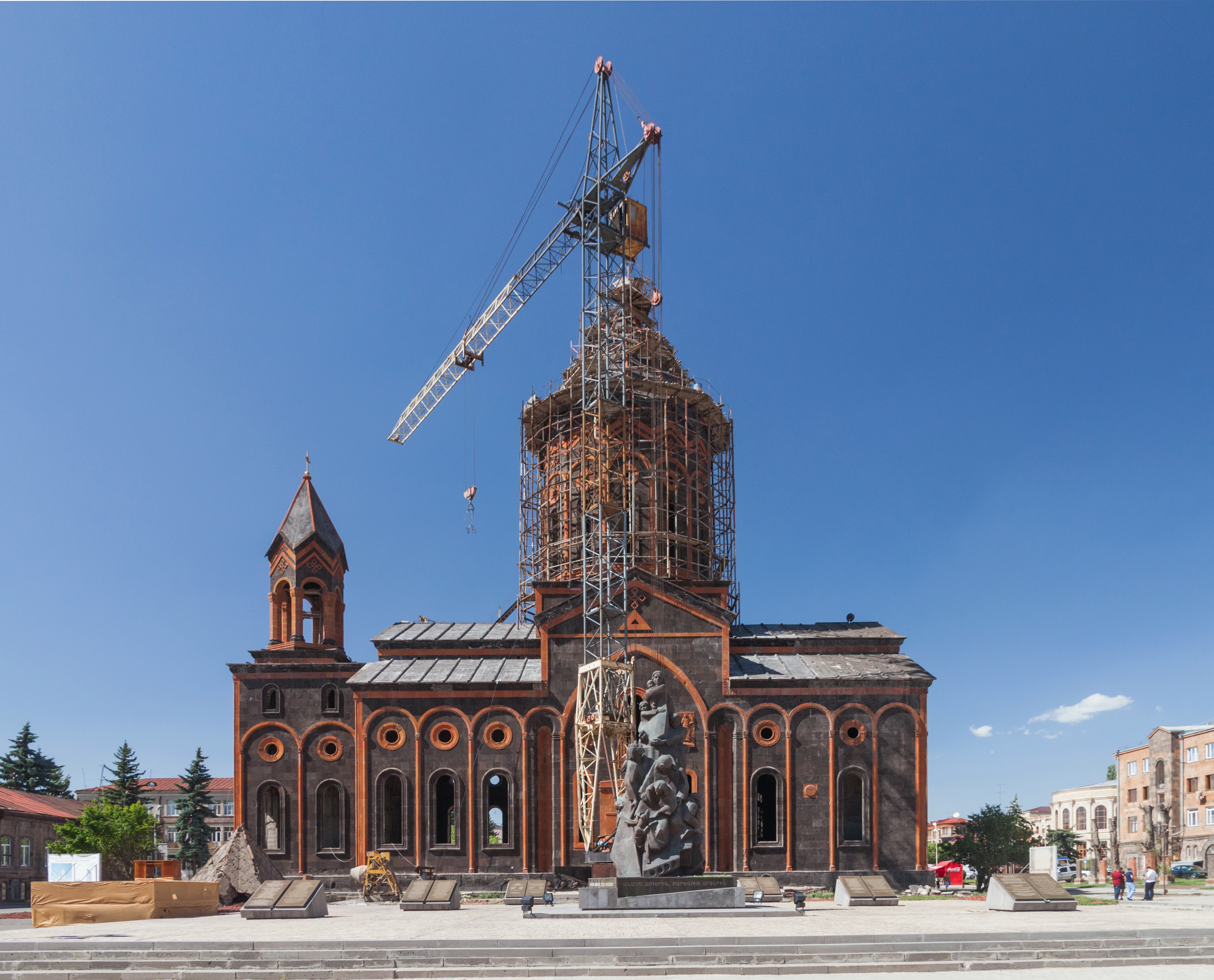 Holy Saviour church. Gyumri, Shirak Province, Armenia.